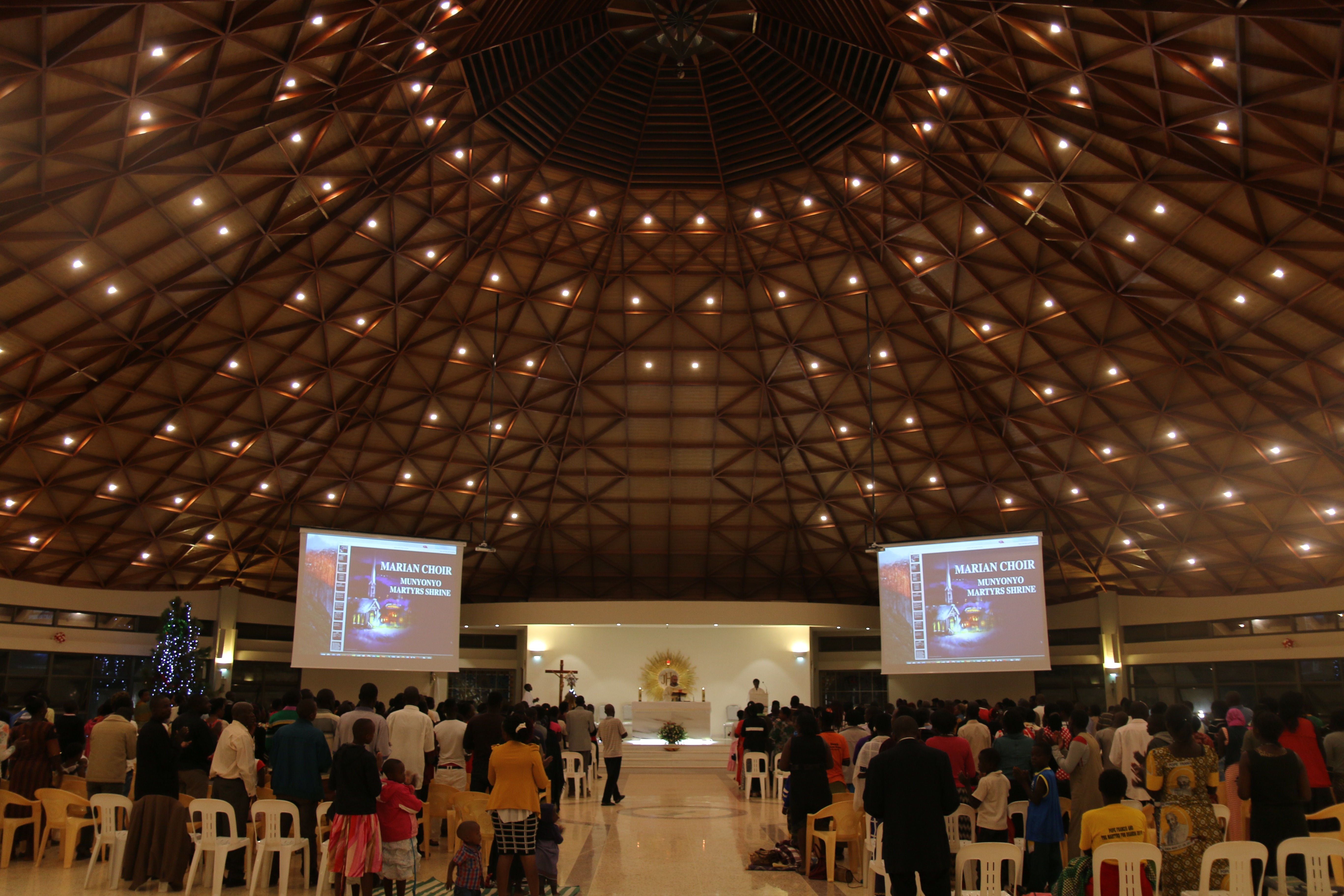 Uganda Martyrs Church in Munyonyo, Kampala build on the spot where future Uganda Martyrs were imprisoned and taken for execution in Namugongo.